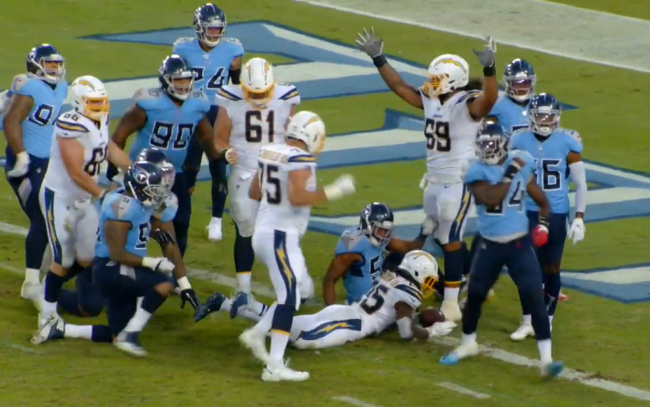 Melvin Gordon 2019. Image from video Titans Goal Line Stand | Nissan Pylon Cam, ~ 00:31.